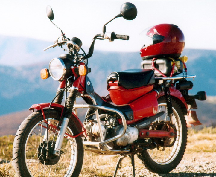 Author: Adrian Reeders Honda CT-110 atop Mt Mckay, Victoria, 2003.